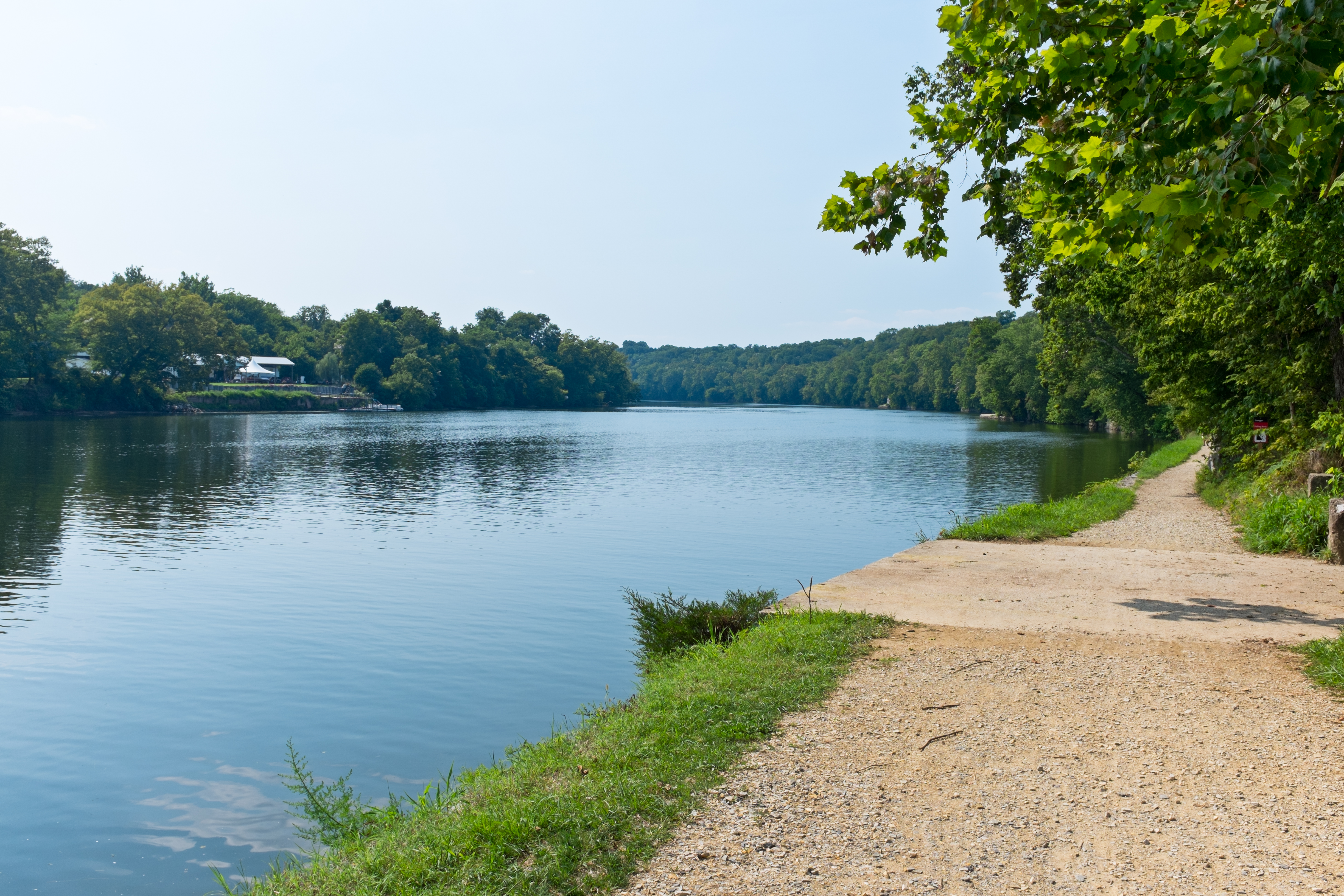 Looking upstream at Big Slackwater, from Mc Mahon's Mill (just above the 88 mile mark).